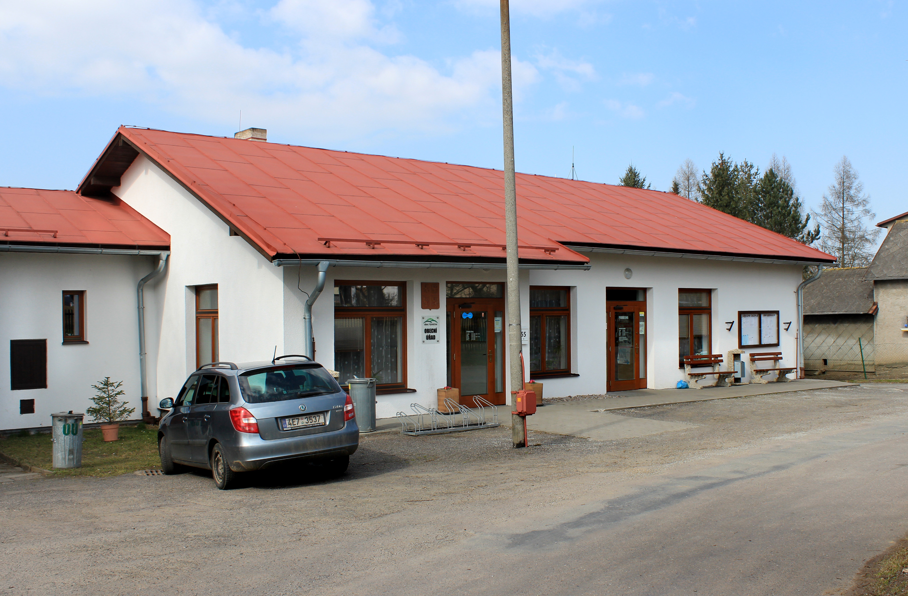 Municipal office in Vysočina village, Czech Republic.